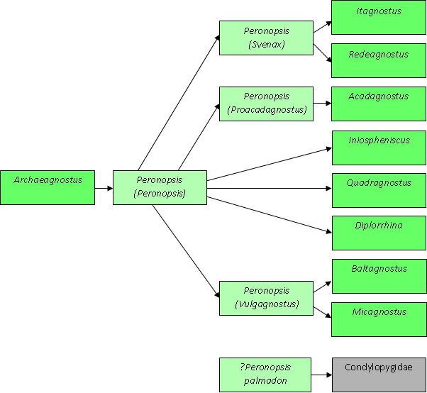 Schematic showing the relationship between the different subgenera of Peronopsis (light green), and other Peronopsid genera (darker green Unclear is the position of ?Peronopsis palmadon, a transitional form between the agnostoids and the cyclopygoids. Based on E. B. Naimark (2012). Hundred species of the genus Peronopsis Hawle et Corda, 1847. Paleontological Journal 46(9):945-1057